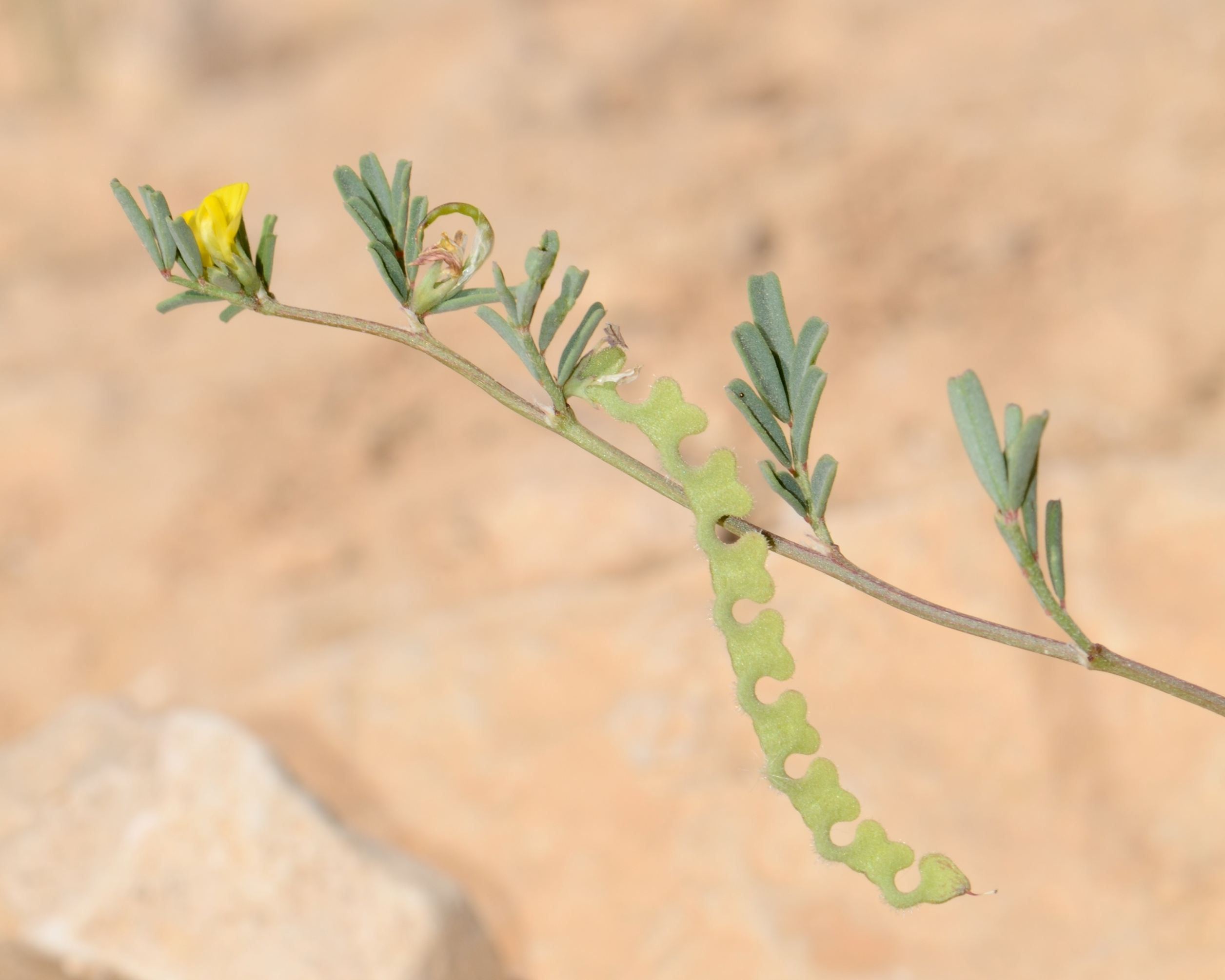 Hippocrepis unisiliquosa L., Reches Boker, Northern Negev, Israel, April 3, 2013.